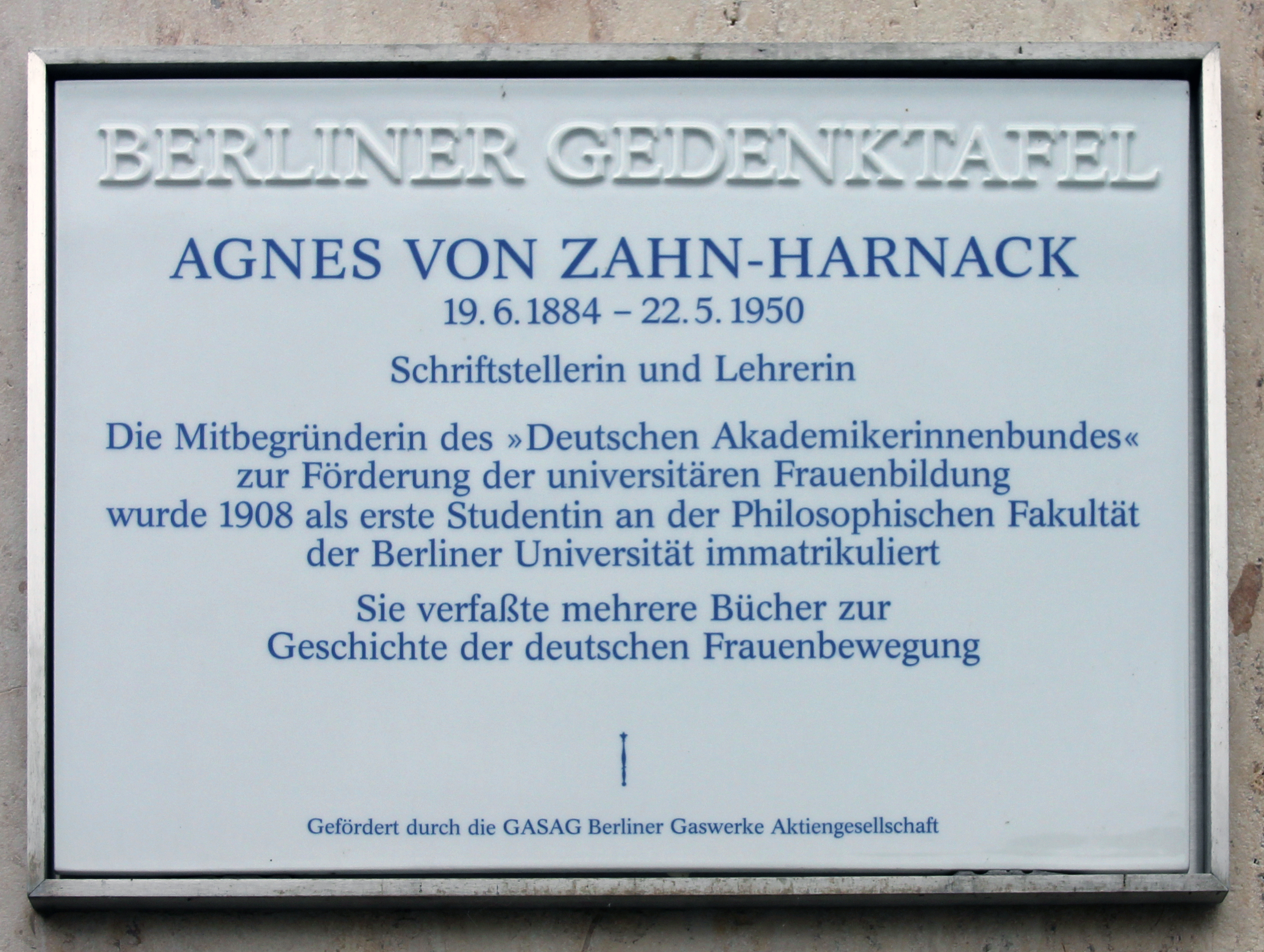 Berlin memorial plaque, Agnes von Zahn-Harnack, Dorotheenstraße 24, Berlin-Mitte, Germany